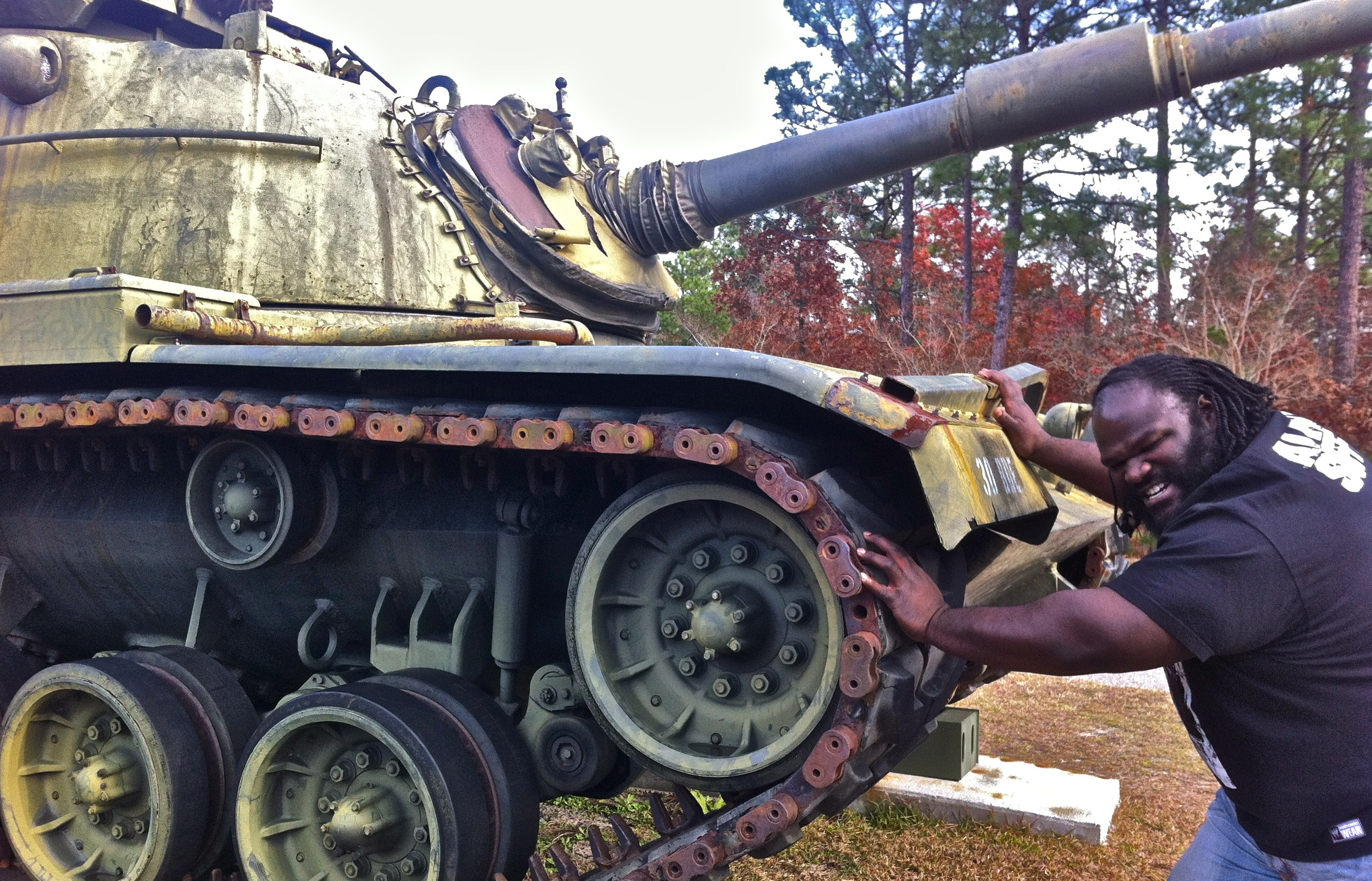 Mark Henry pushing a tank while visiting the North Carolina National Guard's Fayetteville armory on December 10, 2011.